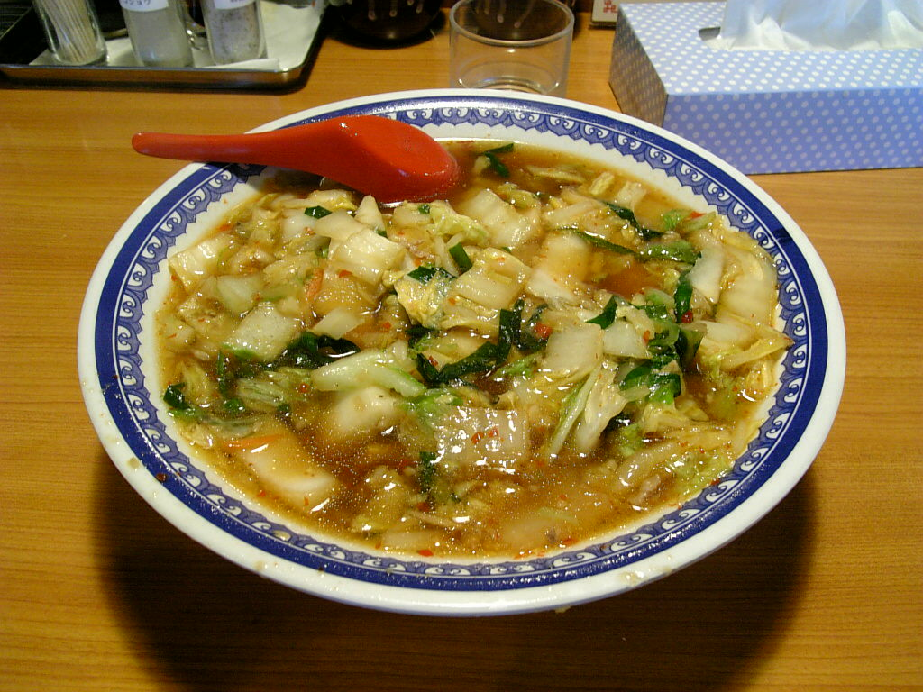 Saika ramen (Tenri ramen), taken by original uploader on March 2007.